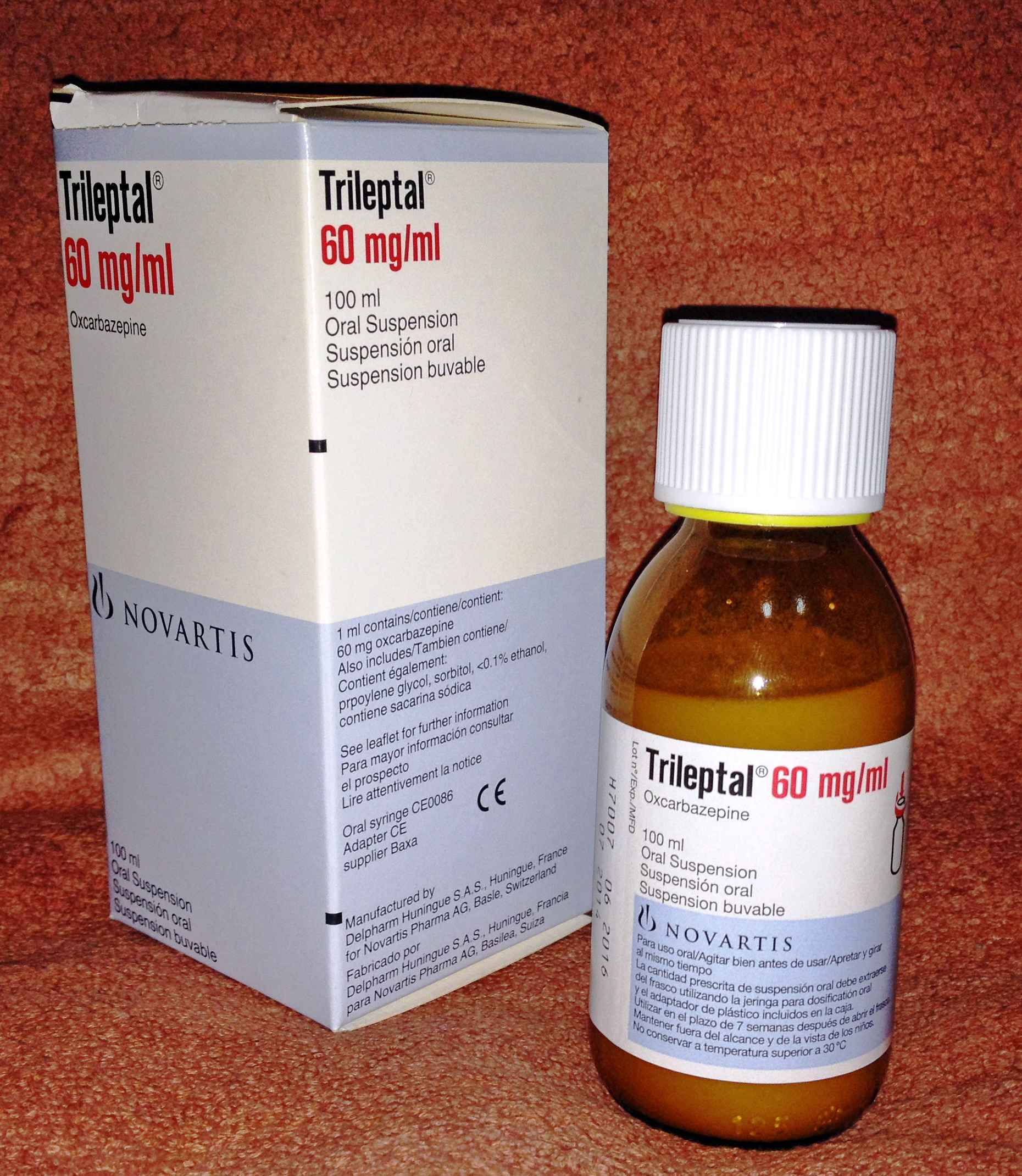 Trileptal Oxcarbazepine NOVARTIS Oral Suspension 100 mg/ml